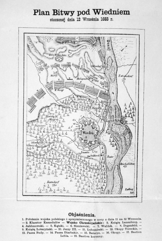 Battle of Vienna